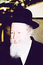 This is a picture of Rabbi Avraham Yehoshua Soloveitchik. It was taken by the blogger E-Tsvi who gave permission for it to be used.